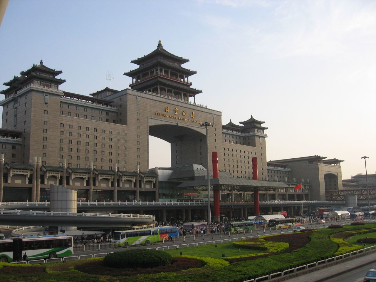 Beijing West train station